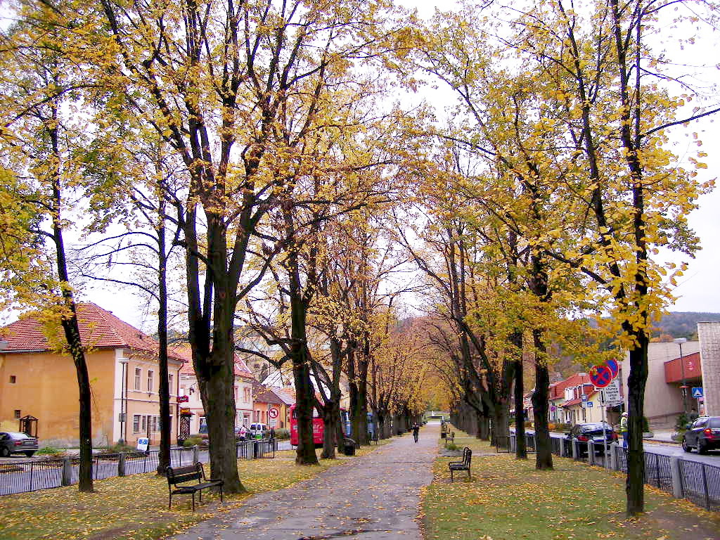 Bojnice - main square (Hurbanovo námestie)